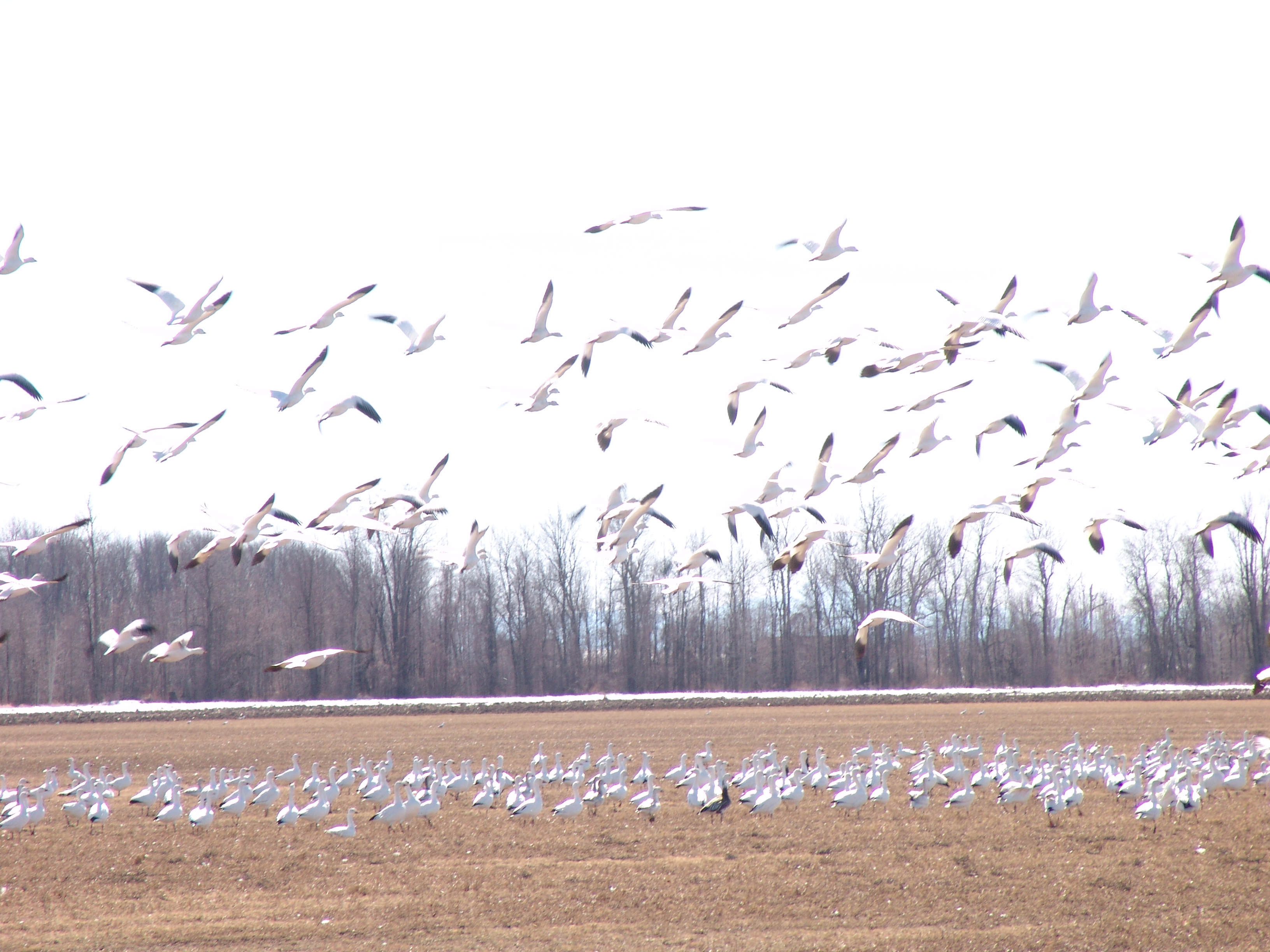 Ross's geese (Chen caerulescens) at Missisquoi National Wildlife Refuge, Vermont